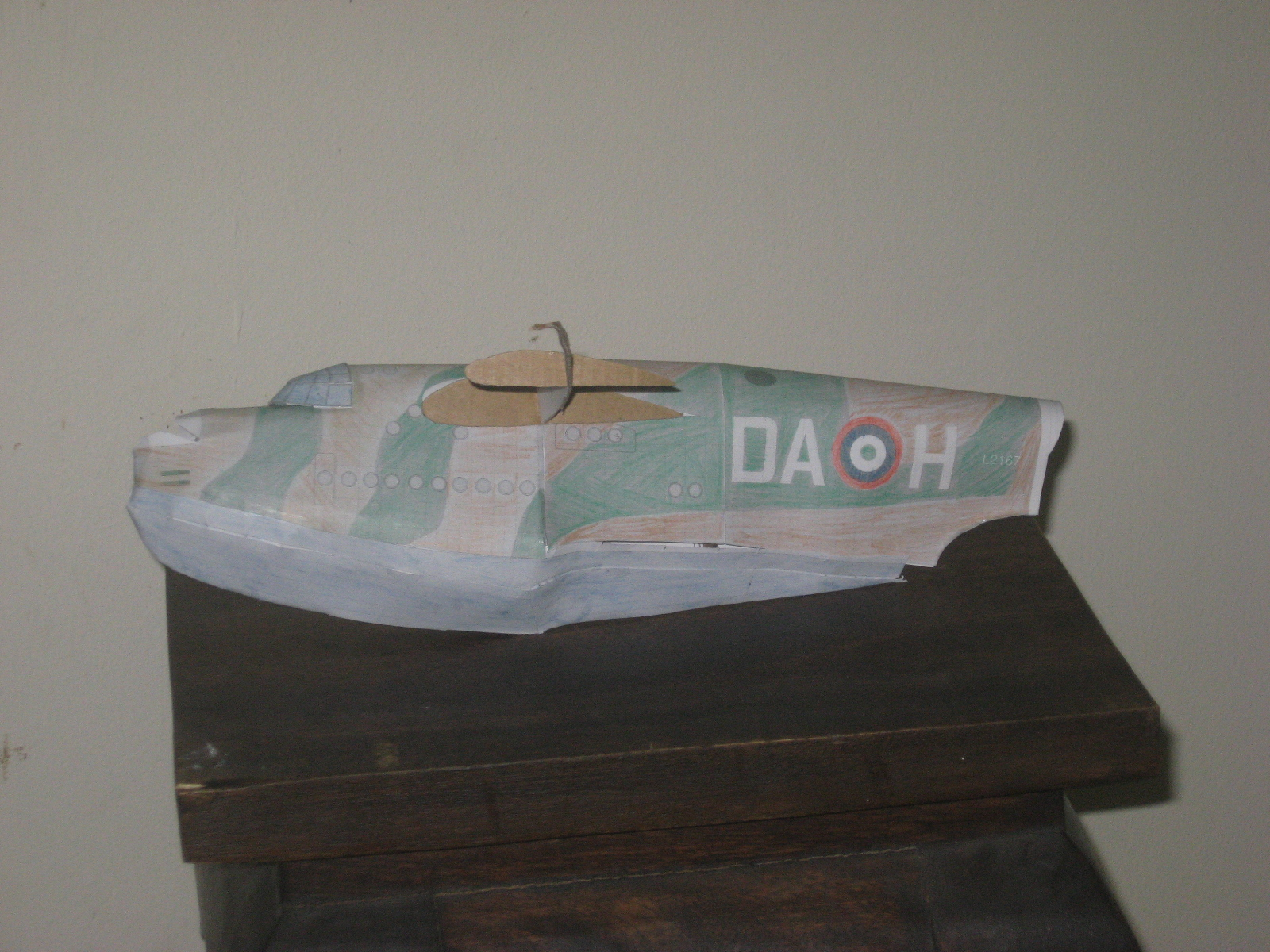 Paper Craft Skeleton